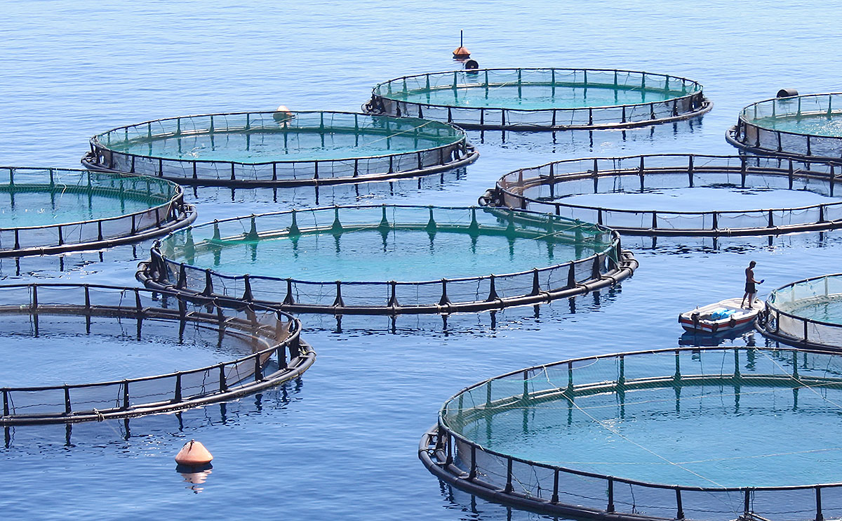 Fish Farming